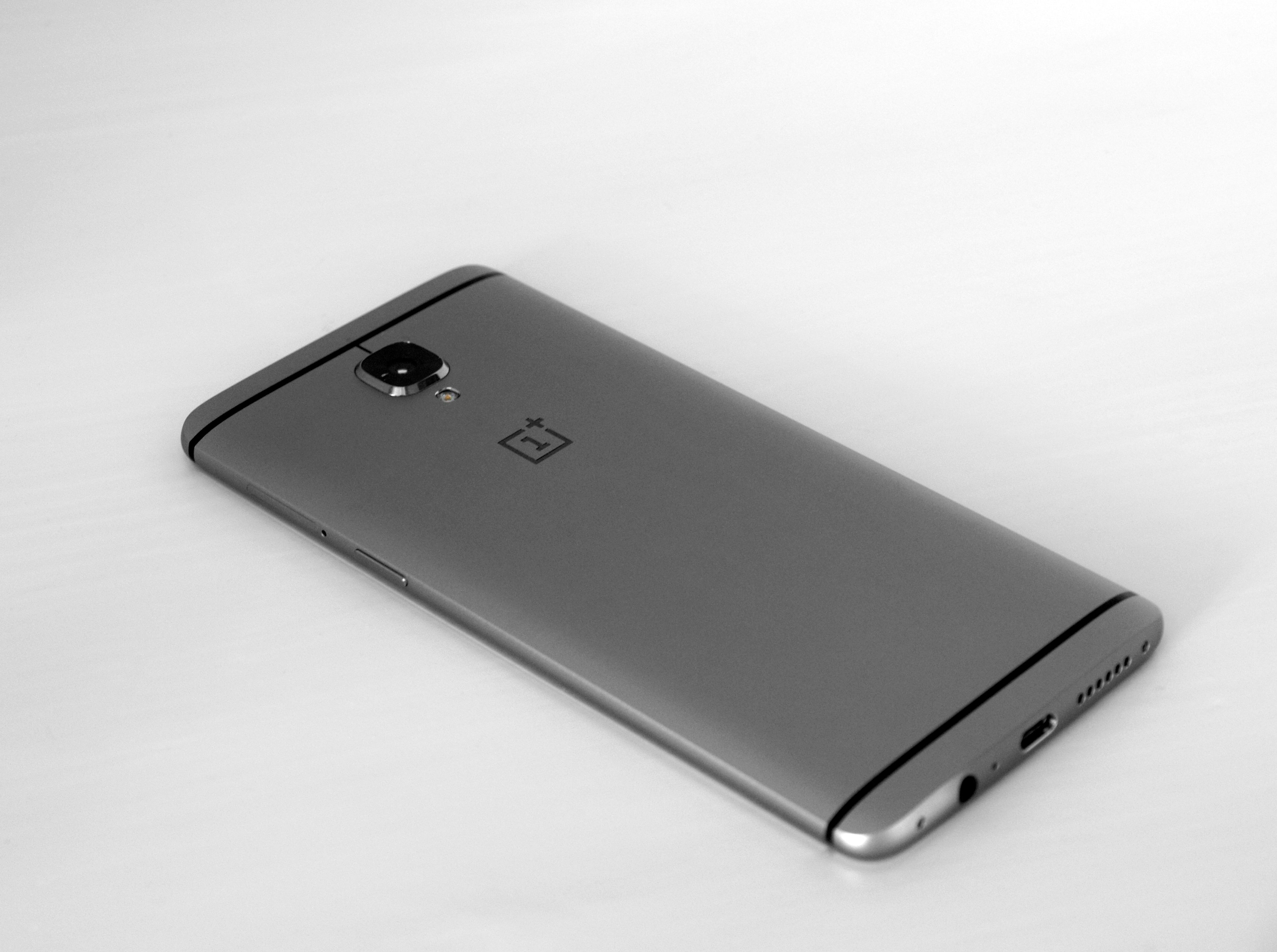 OnePlus 3 A3003 rear.